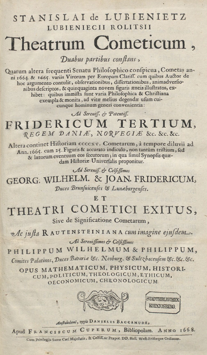 Title page of Stanisław Lubieniecki's "Theatrum Cometicum"